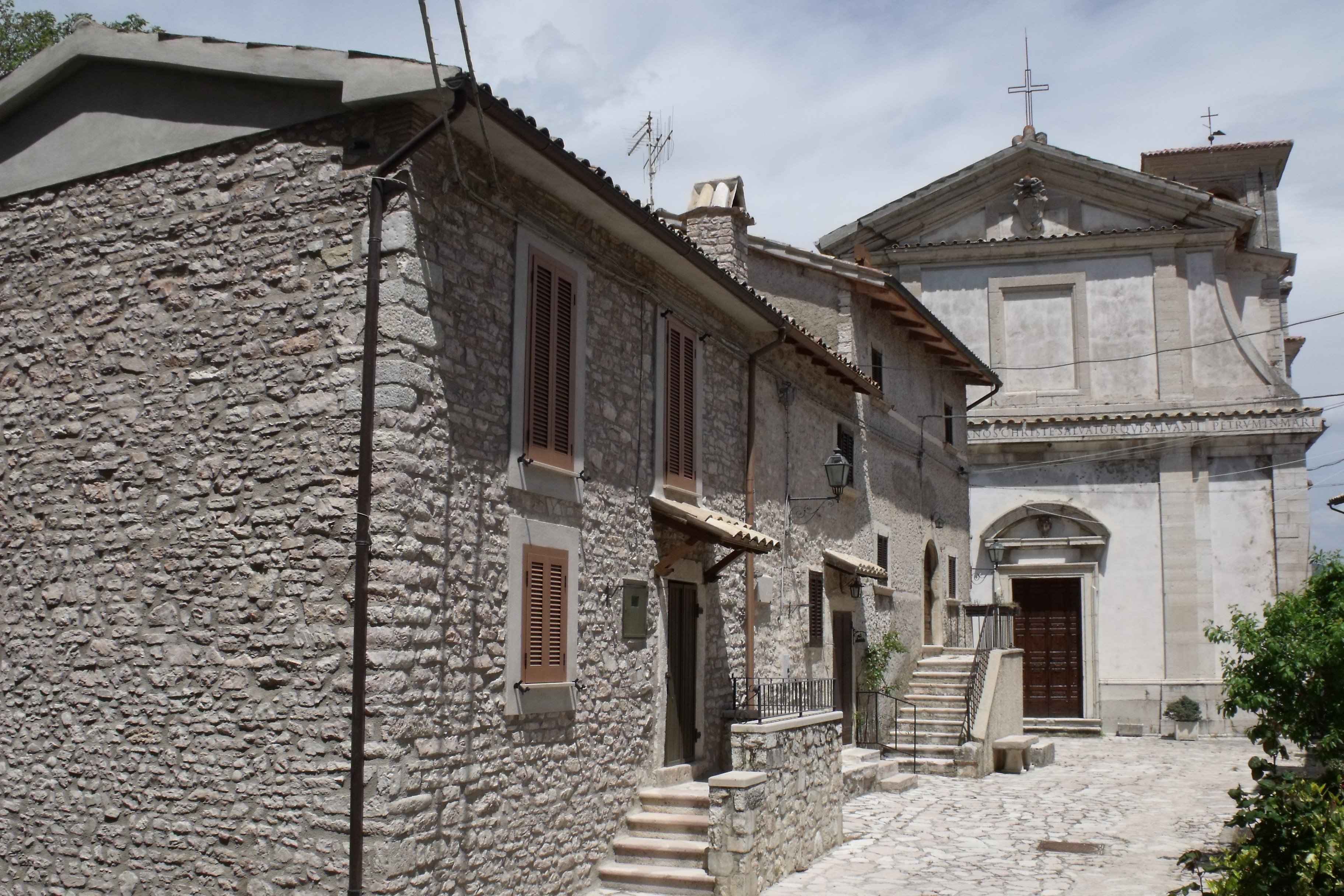 Church San Salvadore in Usigni, Poggiodomo, Province of Perugia, Umbria, Italy